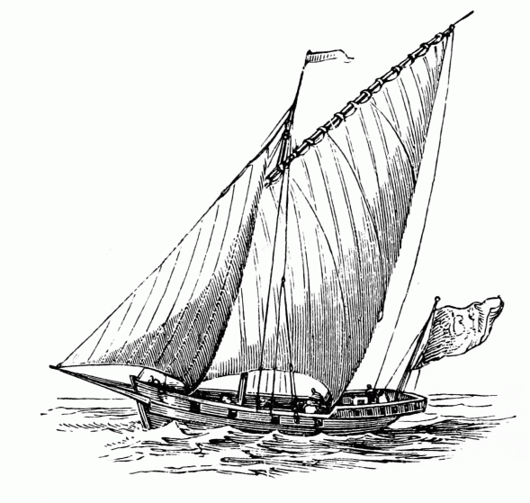 A 19th century illustration of a tartane, a Mediterranean sailing ship.